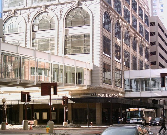 Photo of the 1899 Younkers store in downtown Des Moines, Iowa.